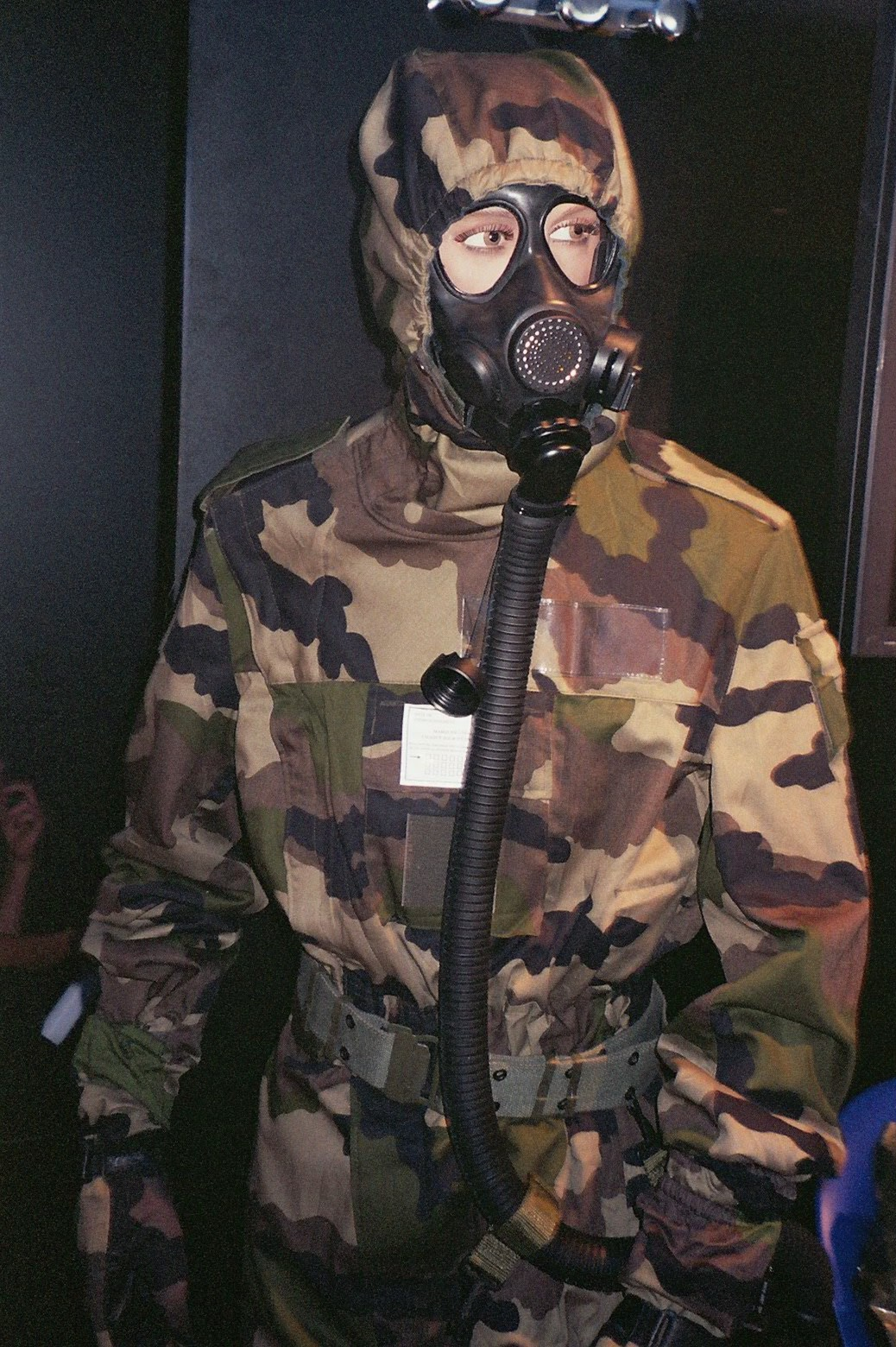 Nation/Defense days, Esplanade des Invalides, Paris, France, September 24-25, 2005: Gas mask